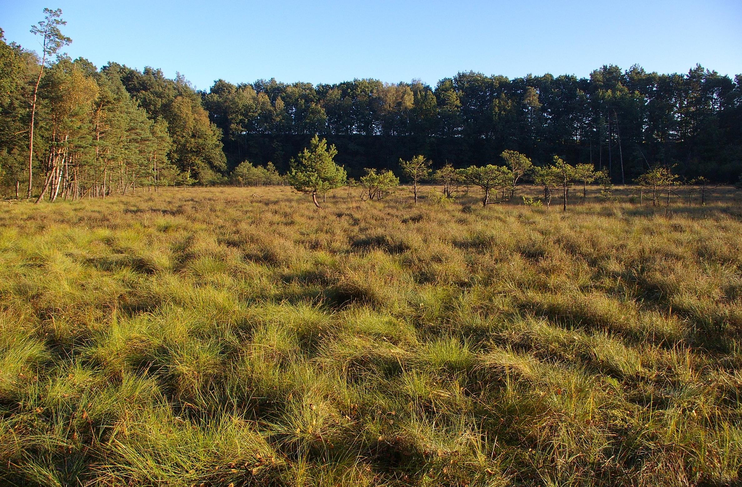 The bog "Maujahn" in Germany. It has been developed in a caving-in over a salt dome.